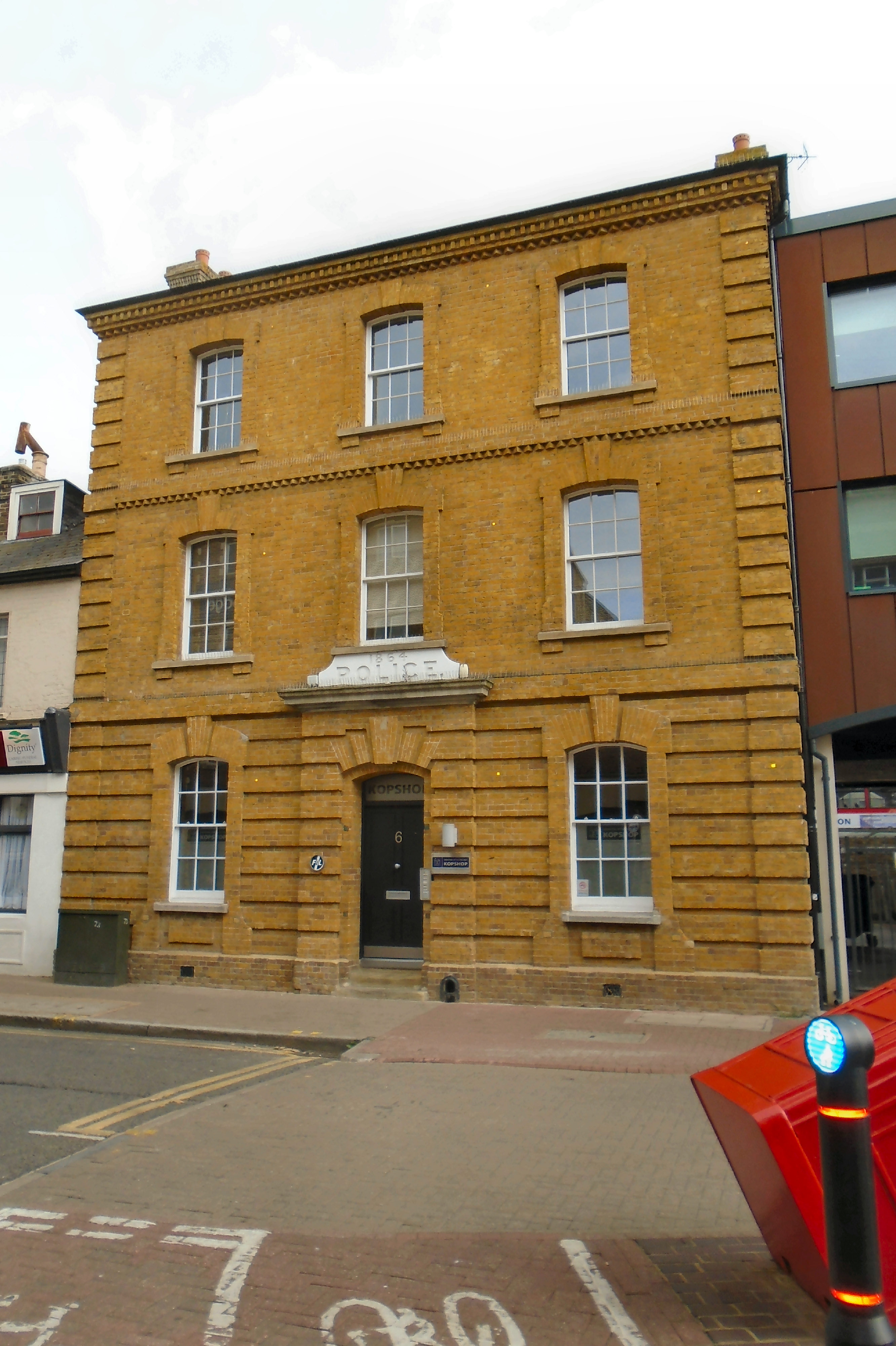 Kingston, Old London Road, Old Police Station (1864), architect Charles Reeve. Listed Building Grade II, Entry Number 1184637, at 6, formerly 22, Old London Road.